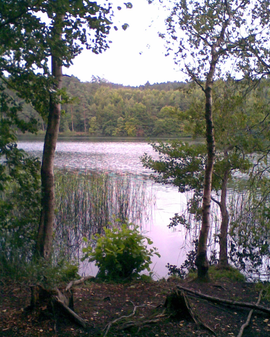 Lake Slåensø near Silkeborg, Denmark